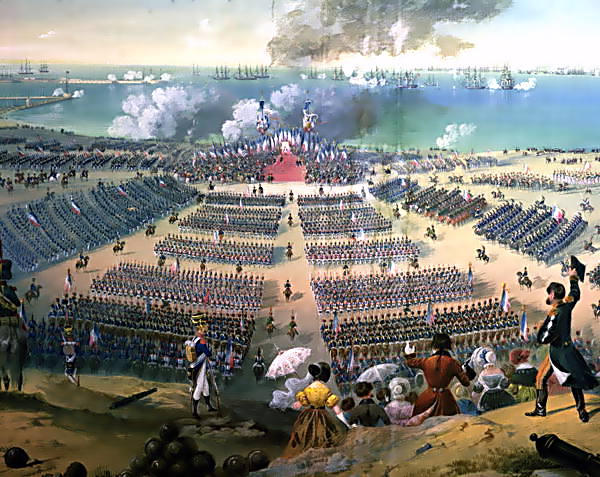 Inspecting the Troops at Boulogne, 15 August 1804